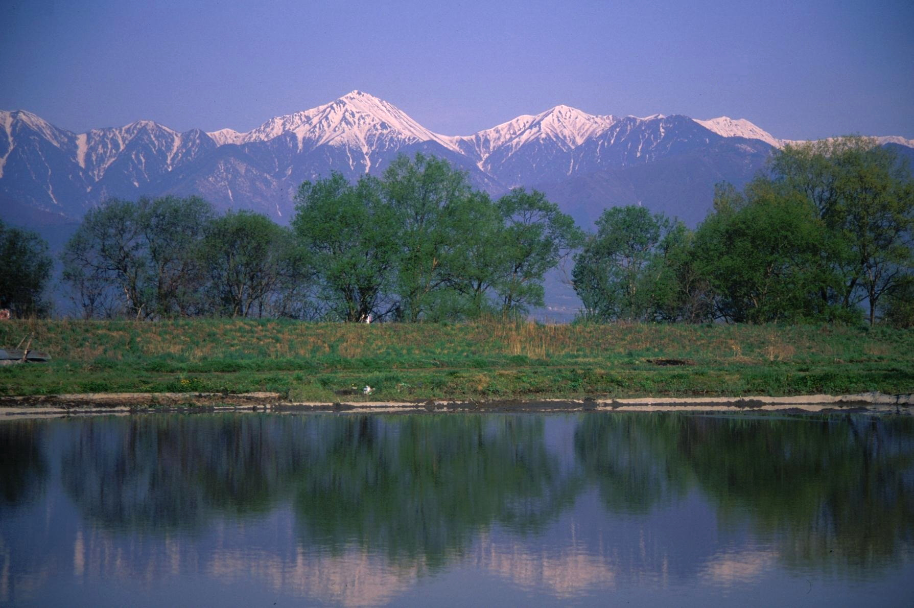 Mount Jōnen and Mount Yokotoshi seen from Sai River in Azumino, Nagano Prefecture, Japan.